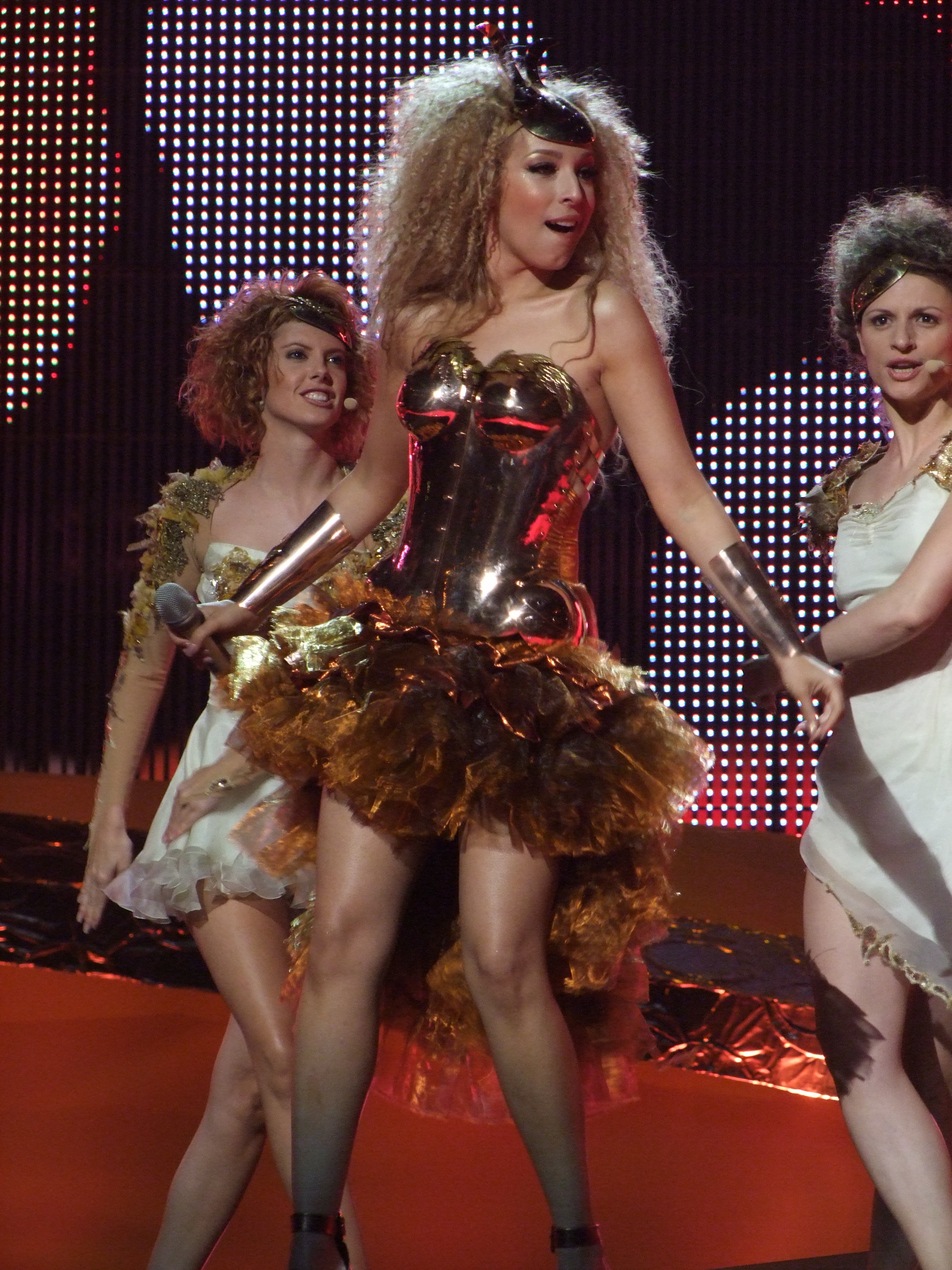 Gisela (in the middle) from Andorra performing, Serbia, May 2008